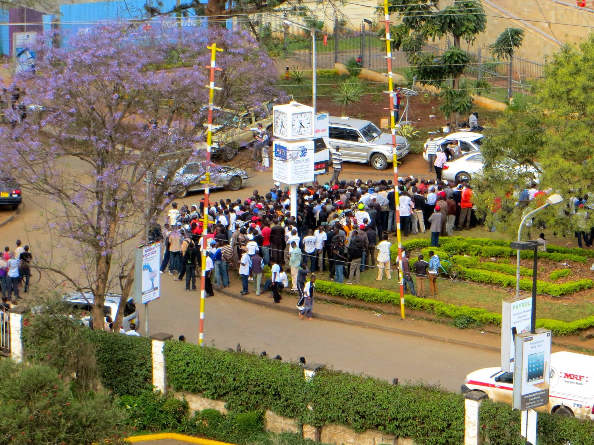 Taken of and around the 2013 Westgate shopping mall terrorist incident in Nairobi, Kenya.